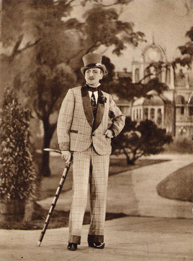 Gösta Ekman doing impersonation of the 1890s variety show star Sigge Wulff.